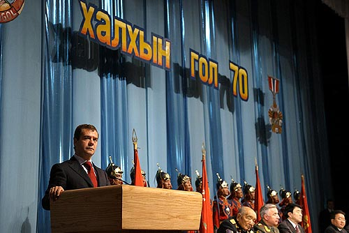 ULAN BATOR. At the ceremonies marking the seventieth anniversary of the joint Soviet-Mongolian victory in the Battle of Khalkhin Gol.